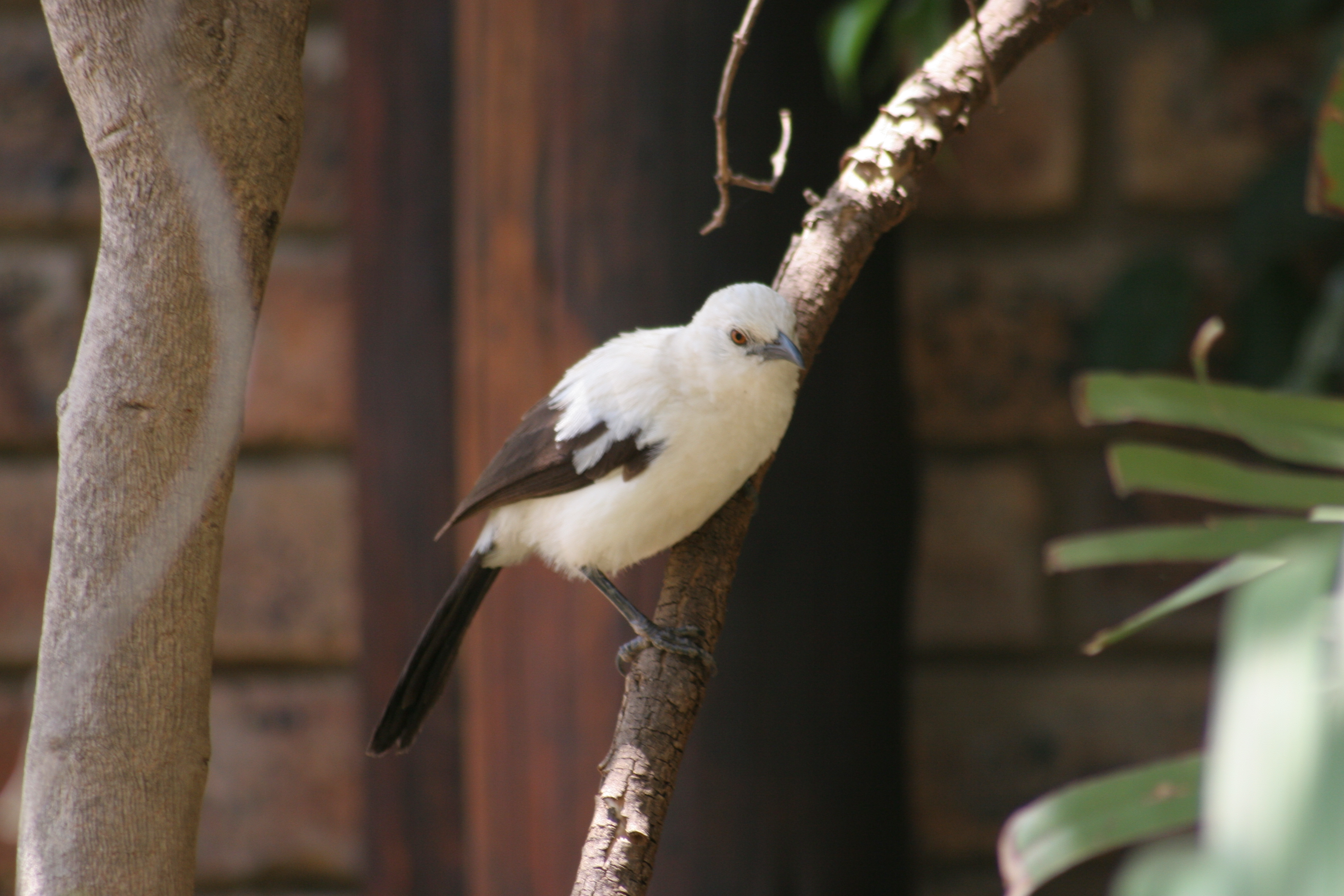 Southern Pied-babbler (Turdoides bicolor). One of a small but noisy flock. Taken at Ra-Molopo in the North West Province.